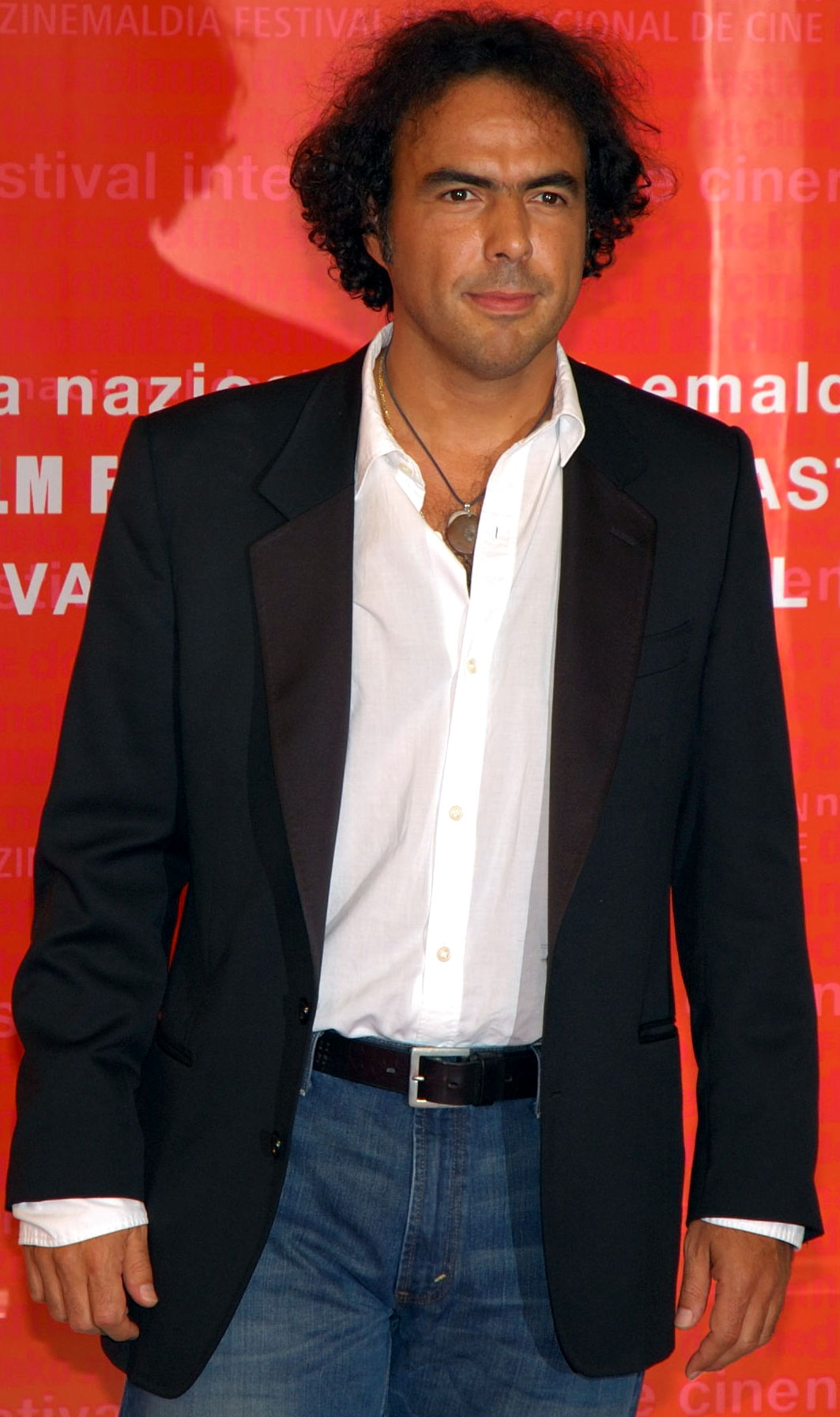 Alejandro González Iñarritu at the San Sebastian International Film Festival 2006